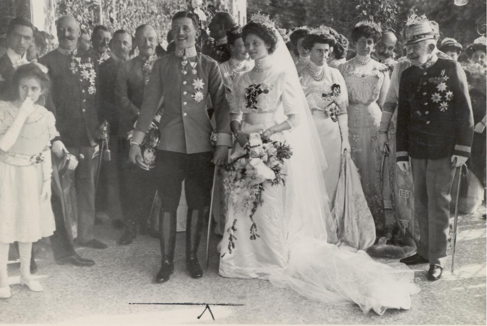 Wedding of Archduke Charles of Austria and Princess Zita of Bourbon-Parma in Schwarzau Palace.